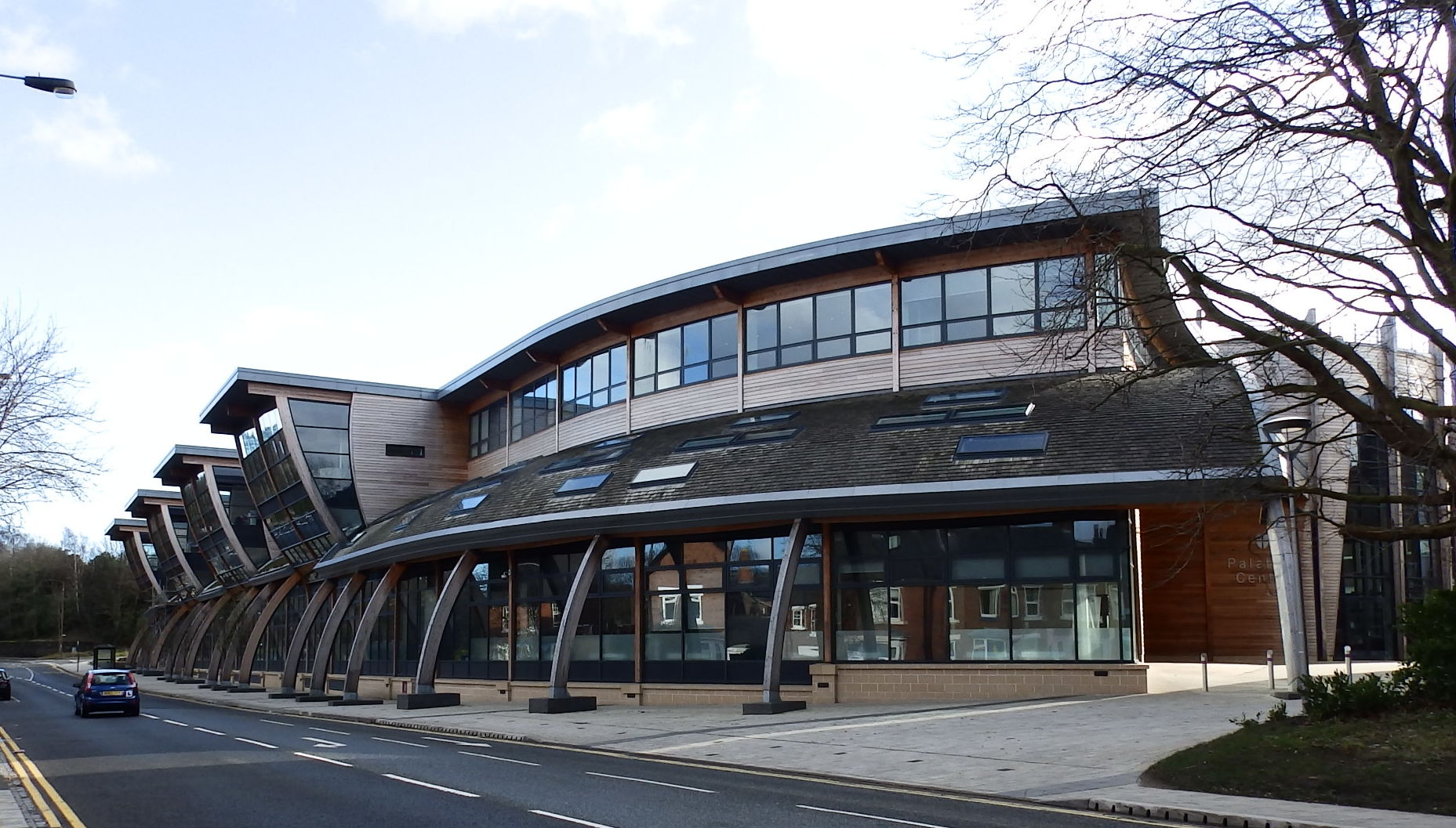 Palatine Centre, Durham University, Stockton Road